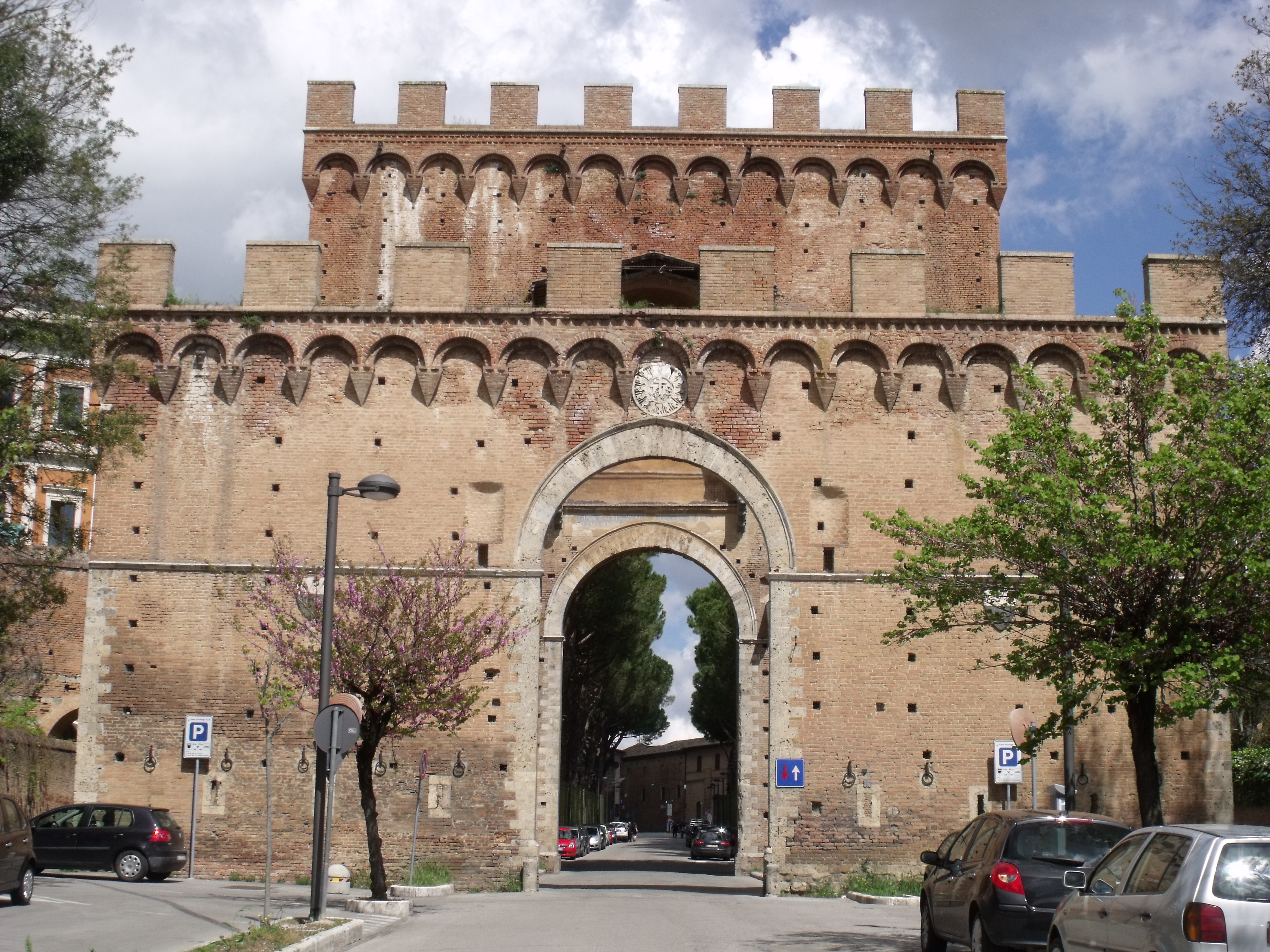 Panorama of the City Gate Porta Romana in Siena, seen from outside